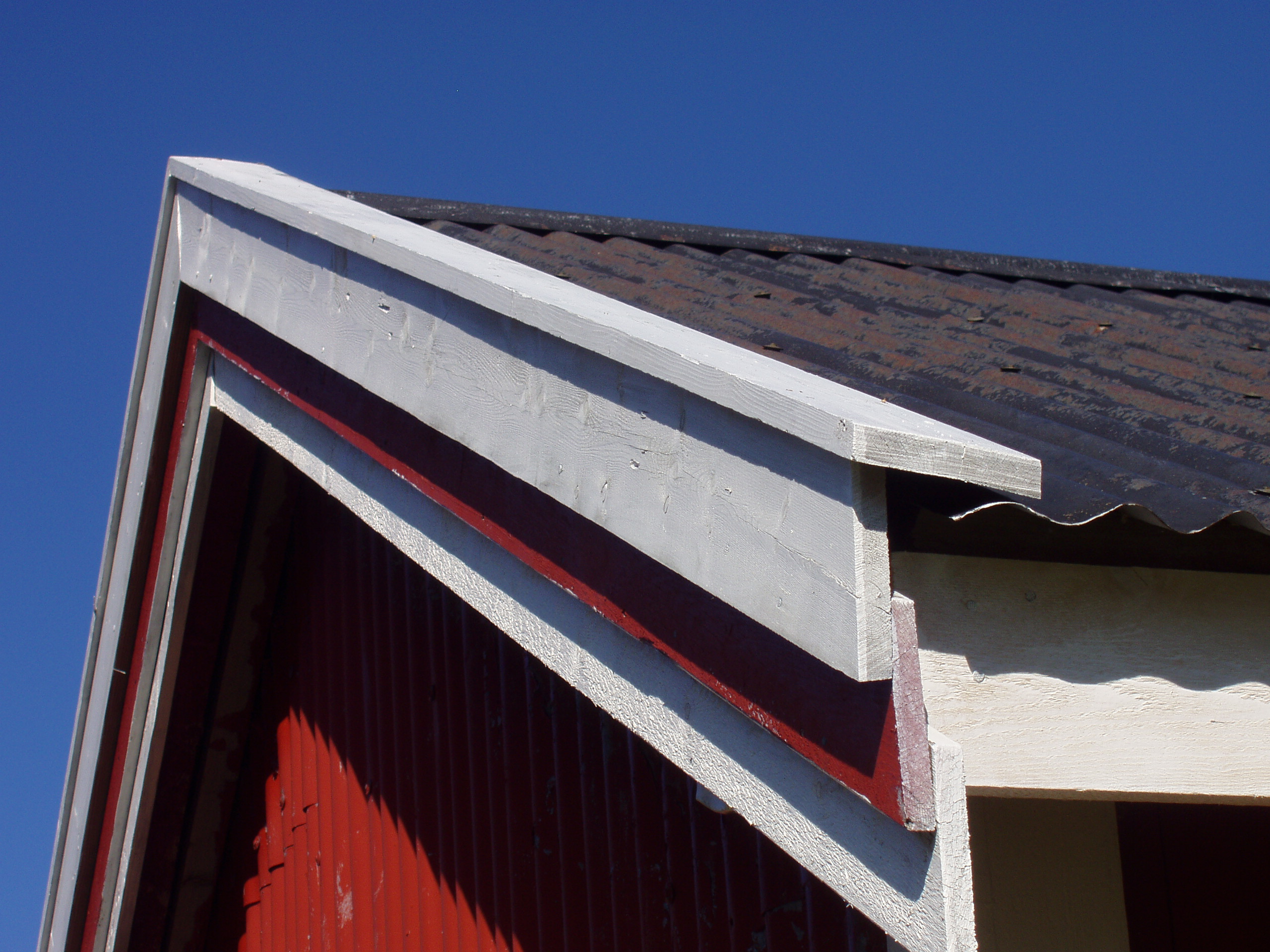 Building detail, Norway